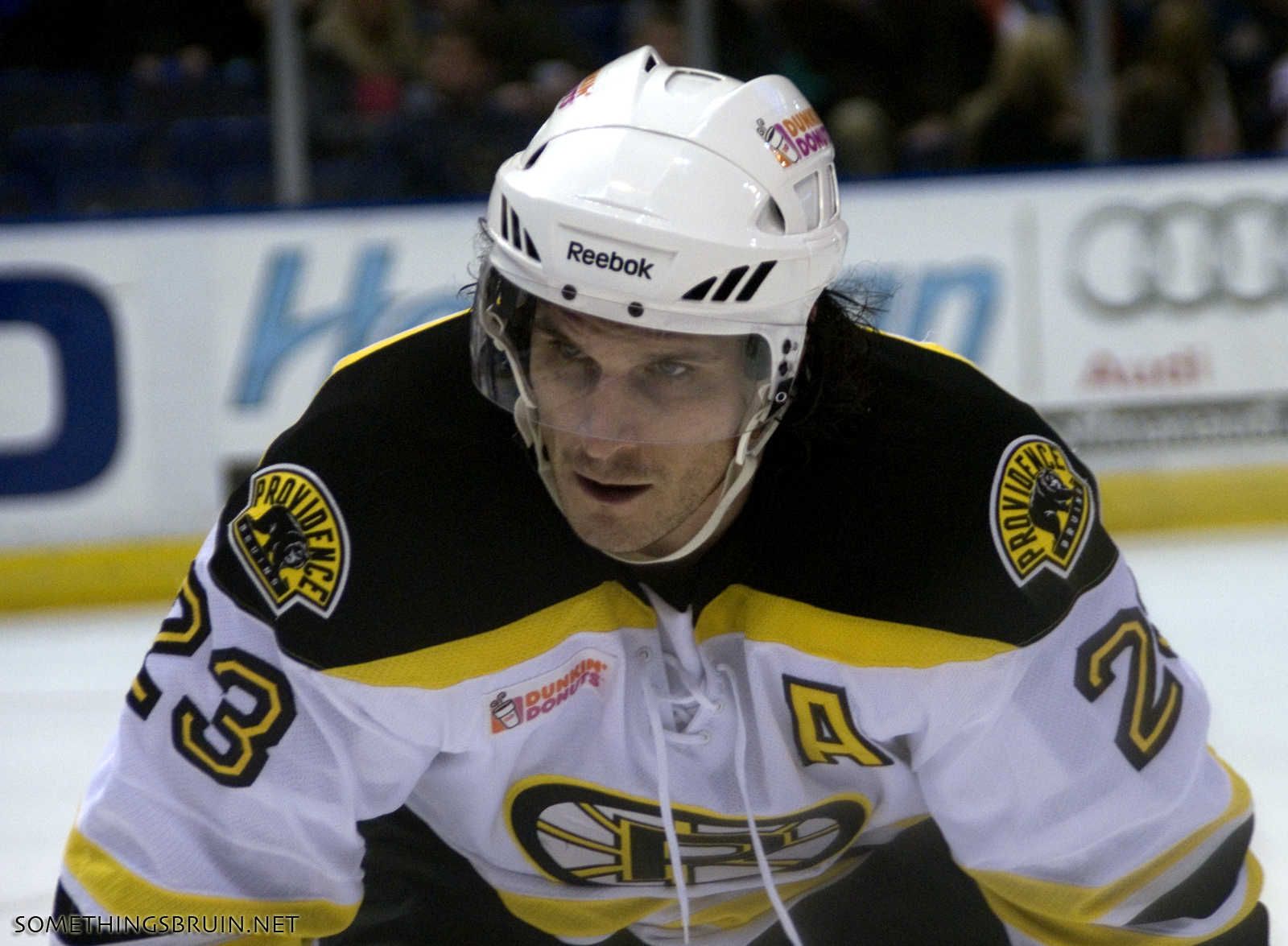 ERI_3541 Providence Bruins vs Connecticut Whale in American Hockey League action at the XL Center in Hartford, Connecticut. This photo was taken by Sarah Connors on January 15, 2011 using a Nikon D200. This photo also appears in sarah_connors' Flickr photostream, and is one of a set of 216 "Providence @ Whale, 1/15/11" Tags: Boston Bruins, Providence Bruins, New York Rangers, Connecticut Whale, NHL, AHL, XL Center, hockey, icehockey, Hartford Wolf Pack